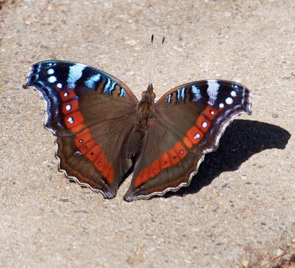 Johannesburg Botanical Gardens, May 2014